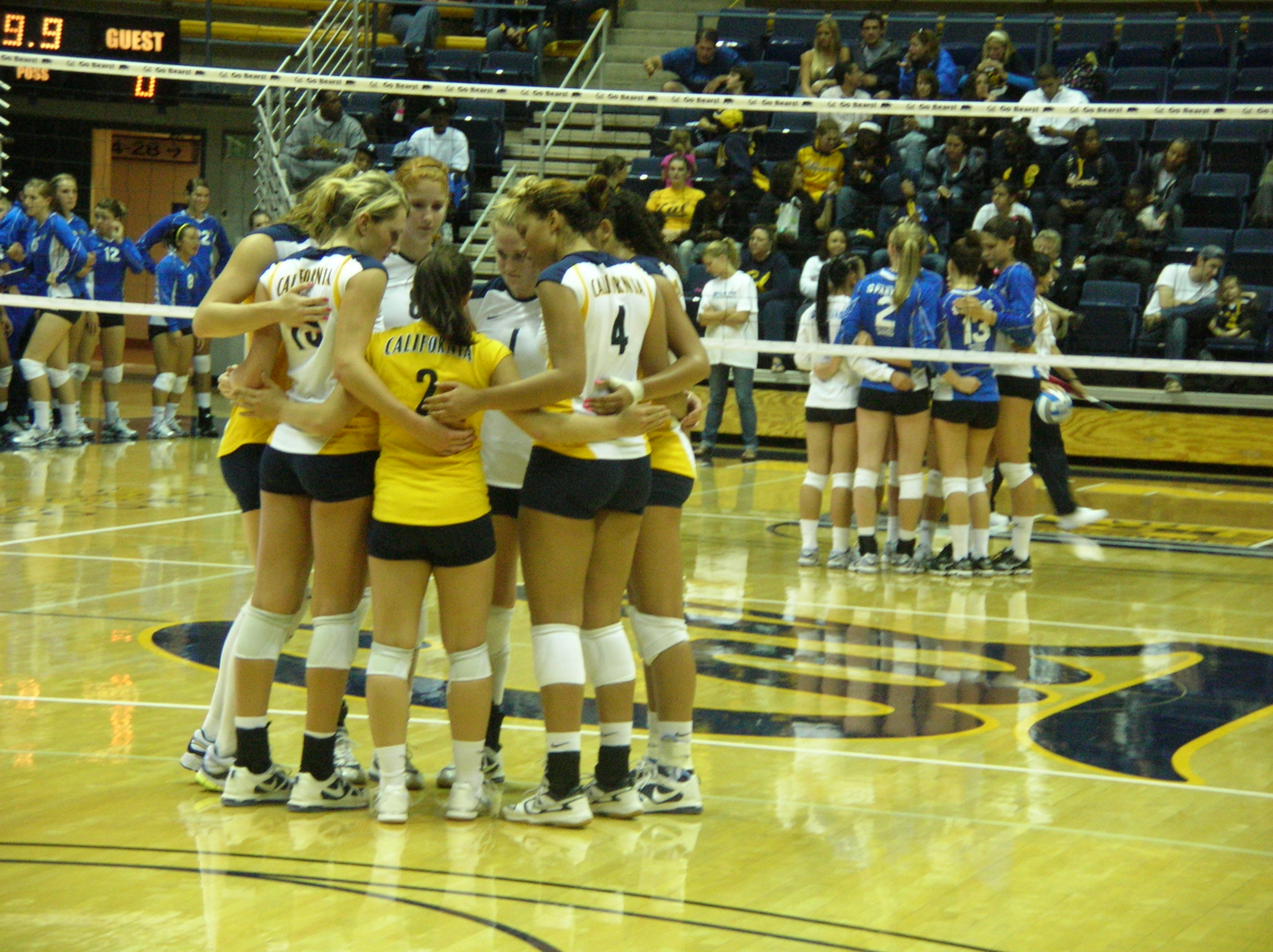 Both teams huddle during a women's volleyball match between the San Jose State Spartans and California Golden Bears in Berkeley. The Golden Bears won 3 sets to 1.